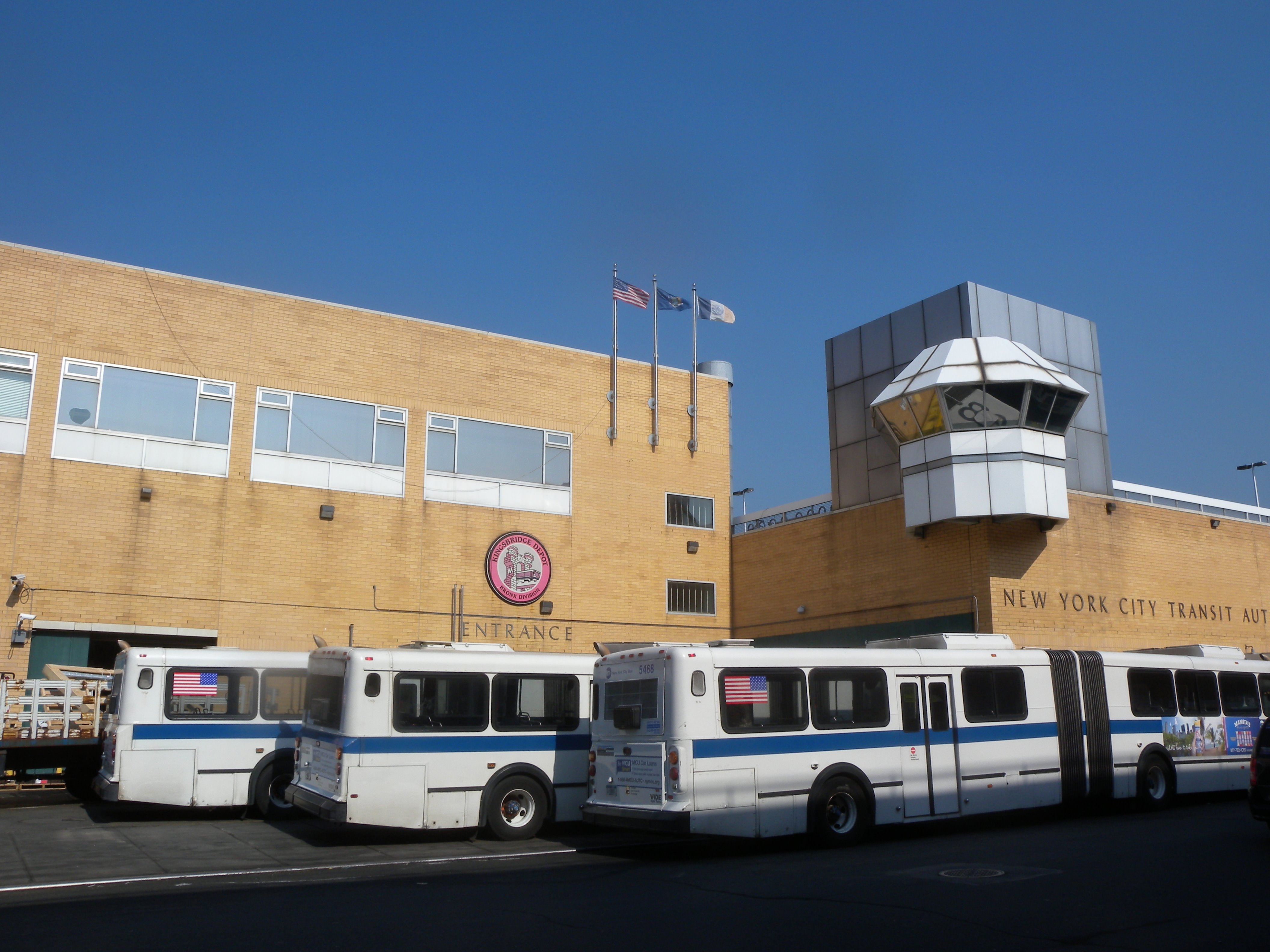 Looking northwest across 9th Avenue at Kingsbridge Depot on a sunny morning.